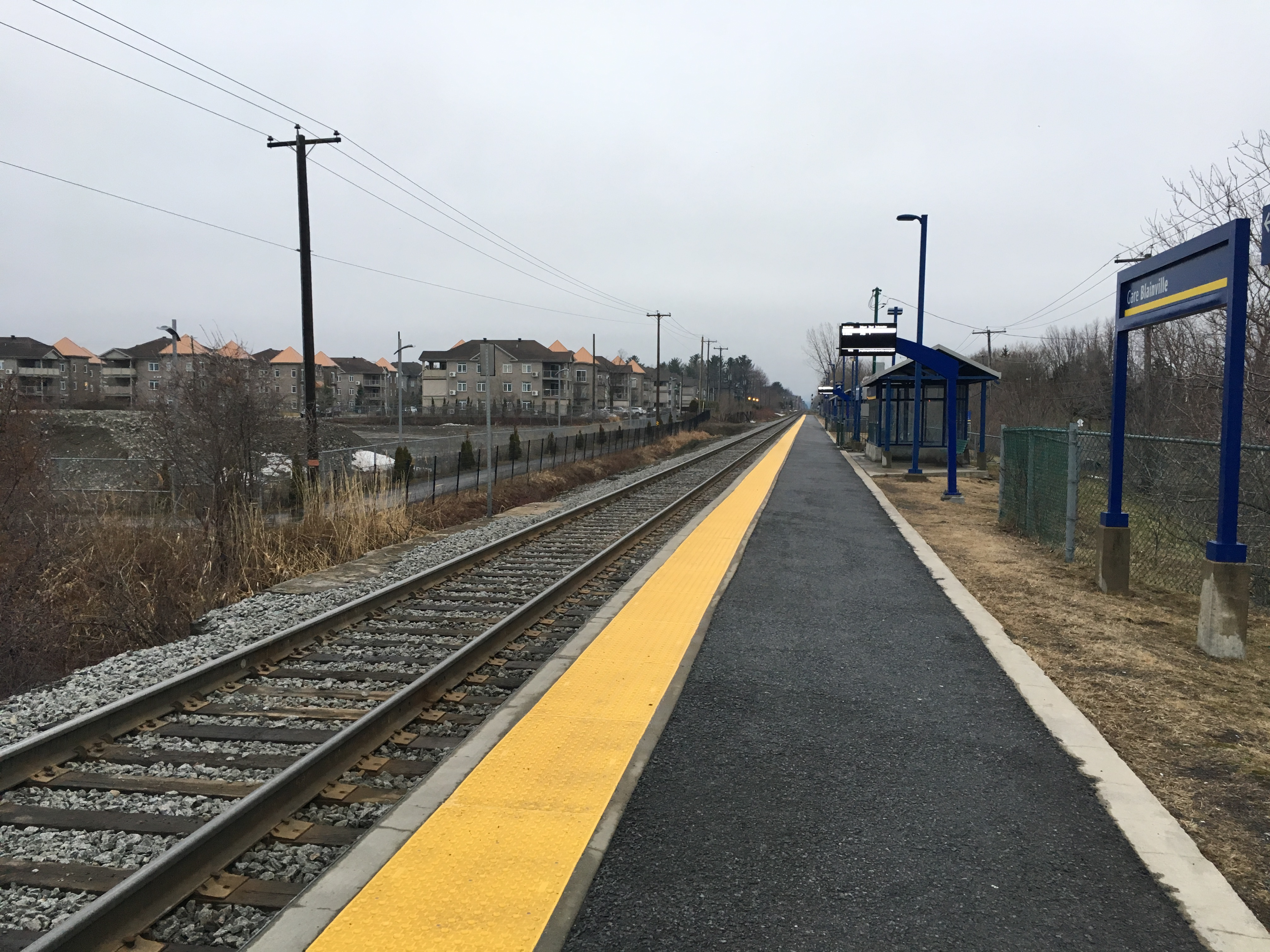 Picture of the Blainville (exo) train station platform Аҧсшәа: Photo de la plateforme à la gare de trains de Blainville (exo)